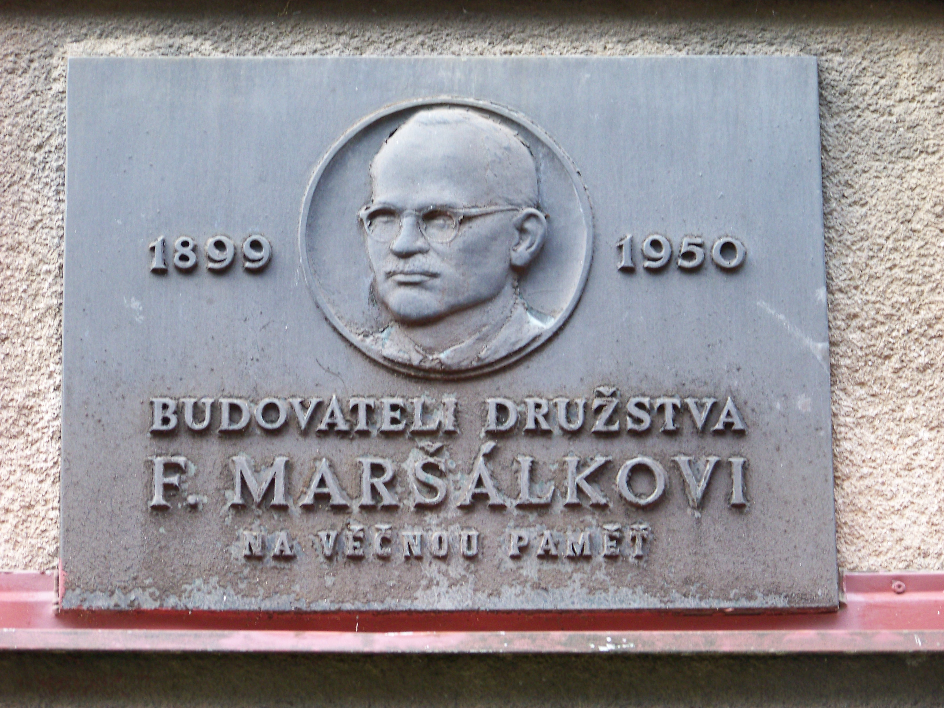 Prague-Strašnice, Solidarita Housing Estate, the Czech Republic. Černokostelecká street, a plaque to the founder of the cooperative. - OpenStreetMap(Info)